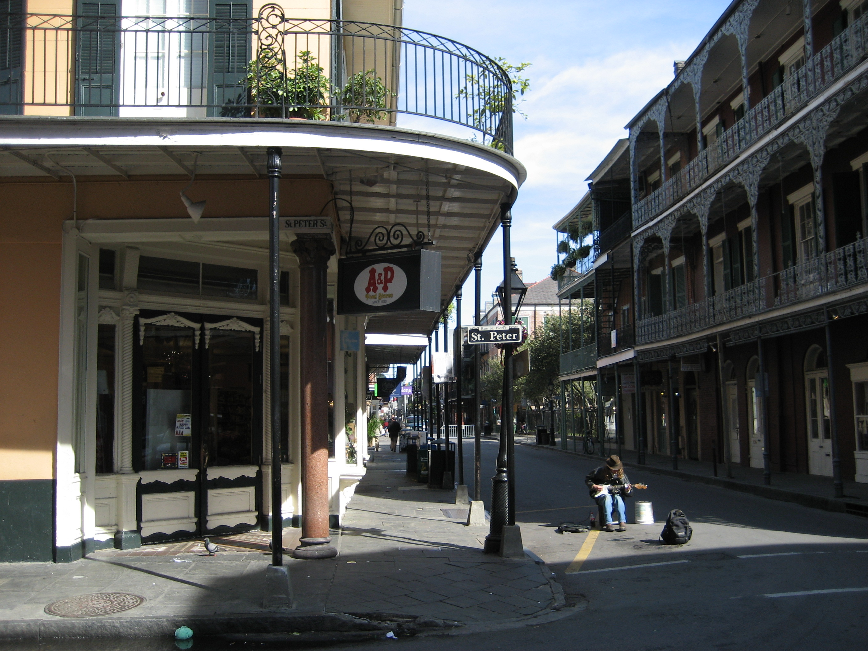 French Quarter, New Orleans, Louisiana A&P grocery store on Royal Street, street guitarist